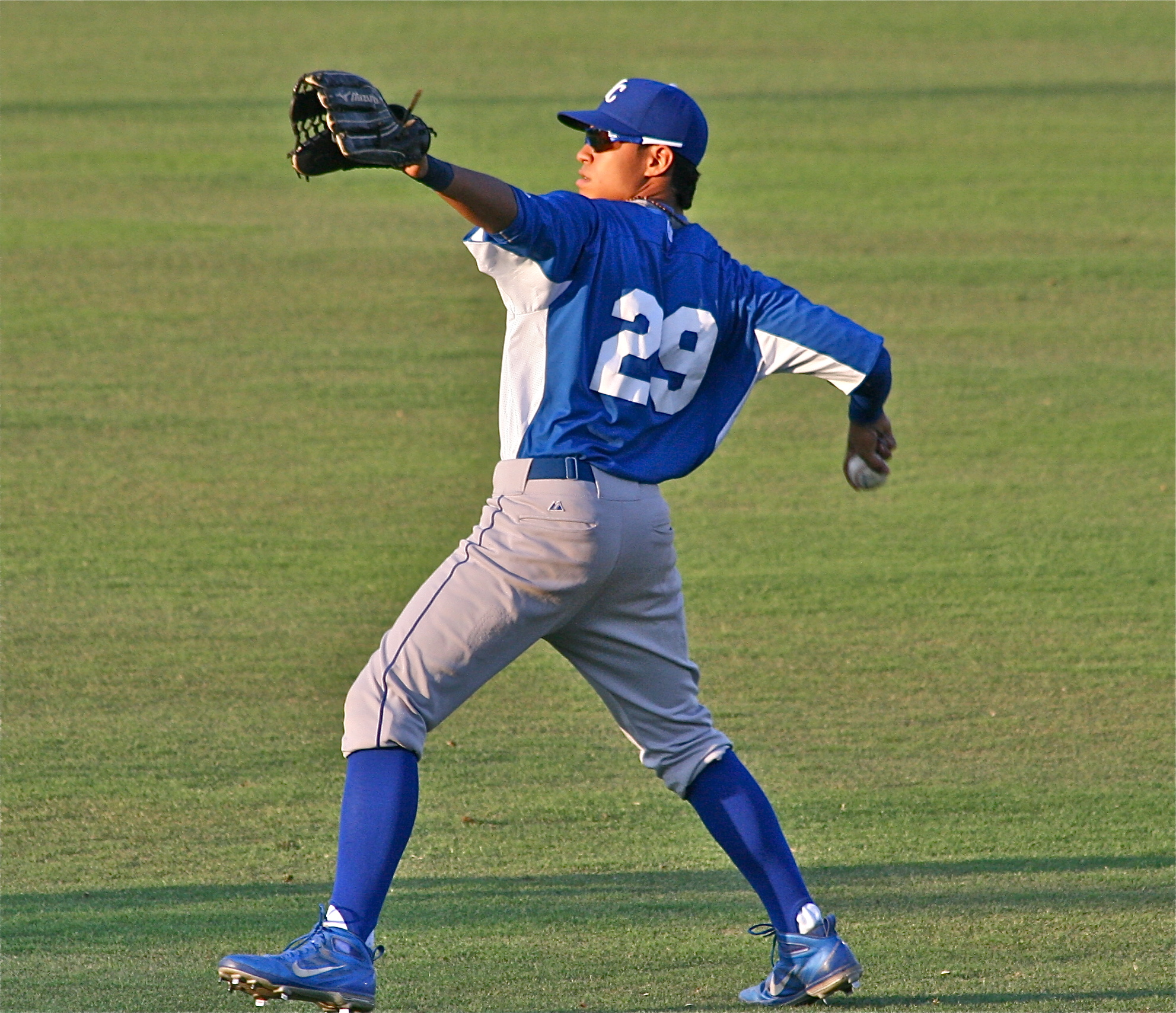 Alfredo Escalera was very comfortable as an infielder but seems to be in his natural position when playing as a center-fielder. Escalera has a strong arm (91 MPH) supported by a mayor league speed (6.5 sec./60 yard dash) that allows him to cover a lot of ground.